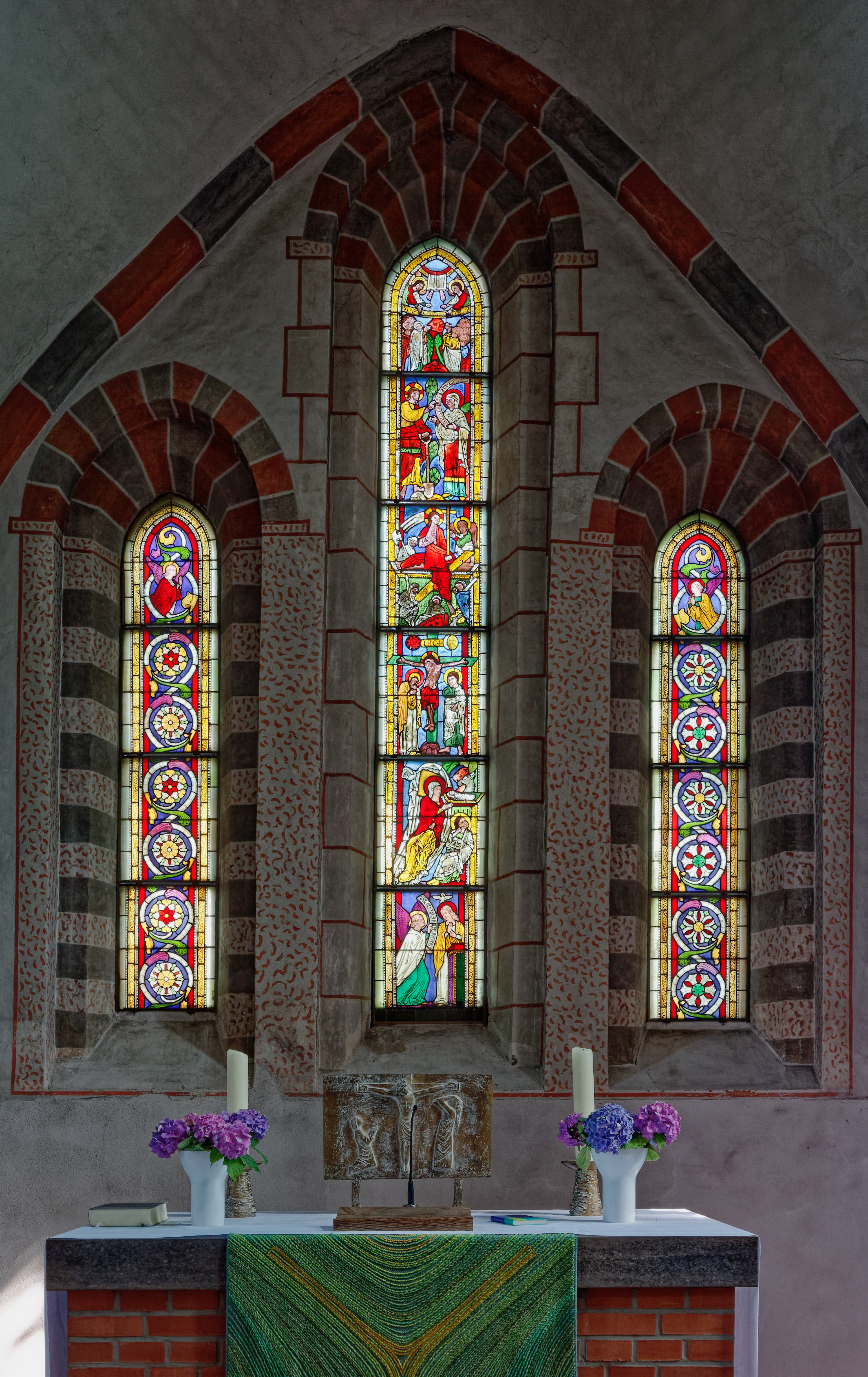 Stained glass windows in the Church in Breitenfelde